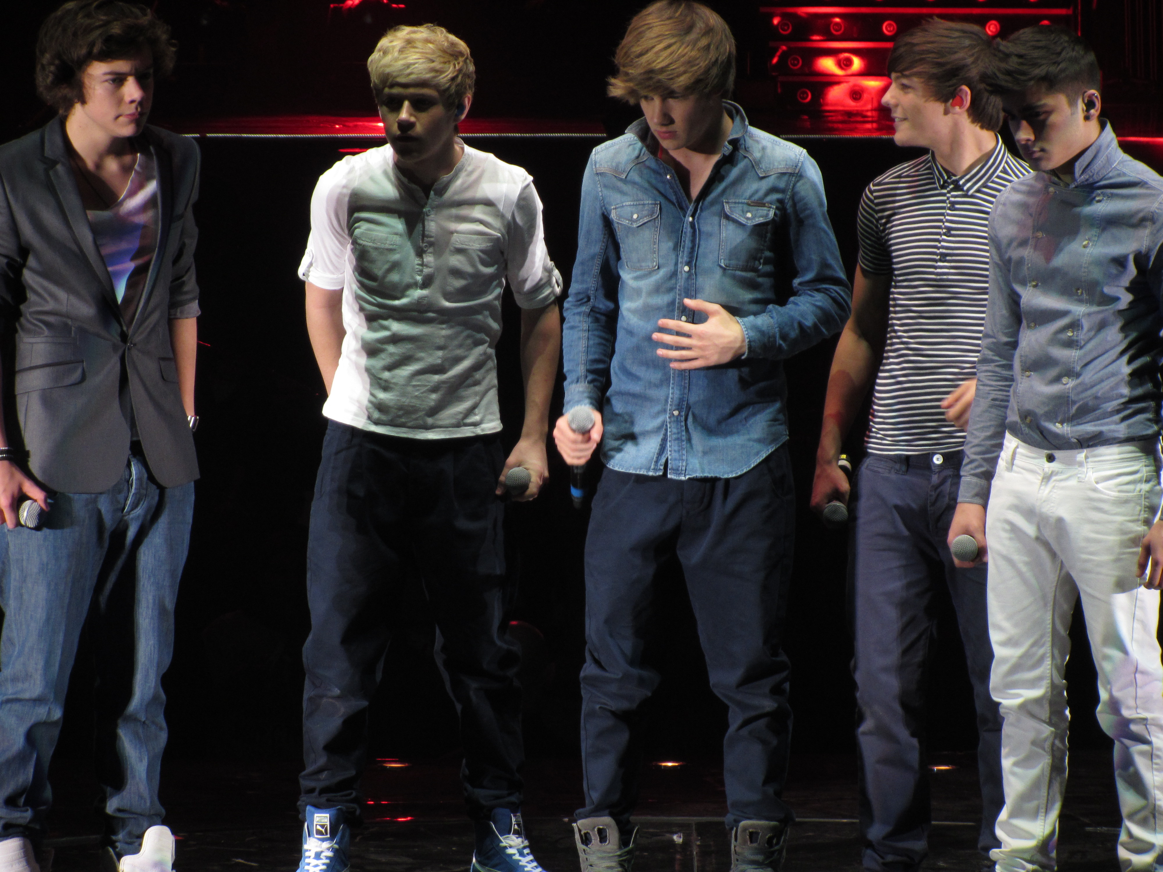 One Direction, The X Factor Live, SECC, Glasgow, 1 April 2011. From left to right: Harry Styles, Niall Horan, Liam Payne, Louis Tomlinson, Zain Malik